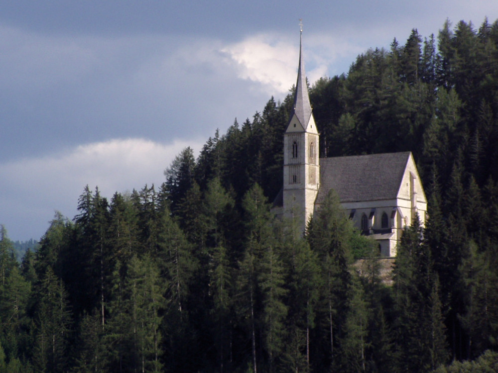 St. Leonhard church, Tamsweg, Austria.